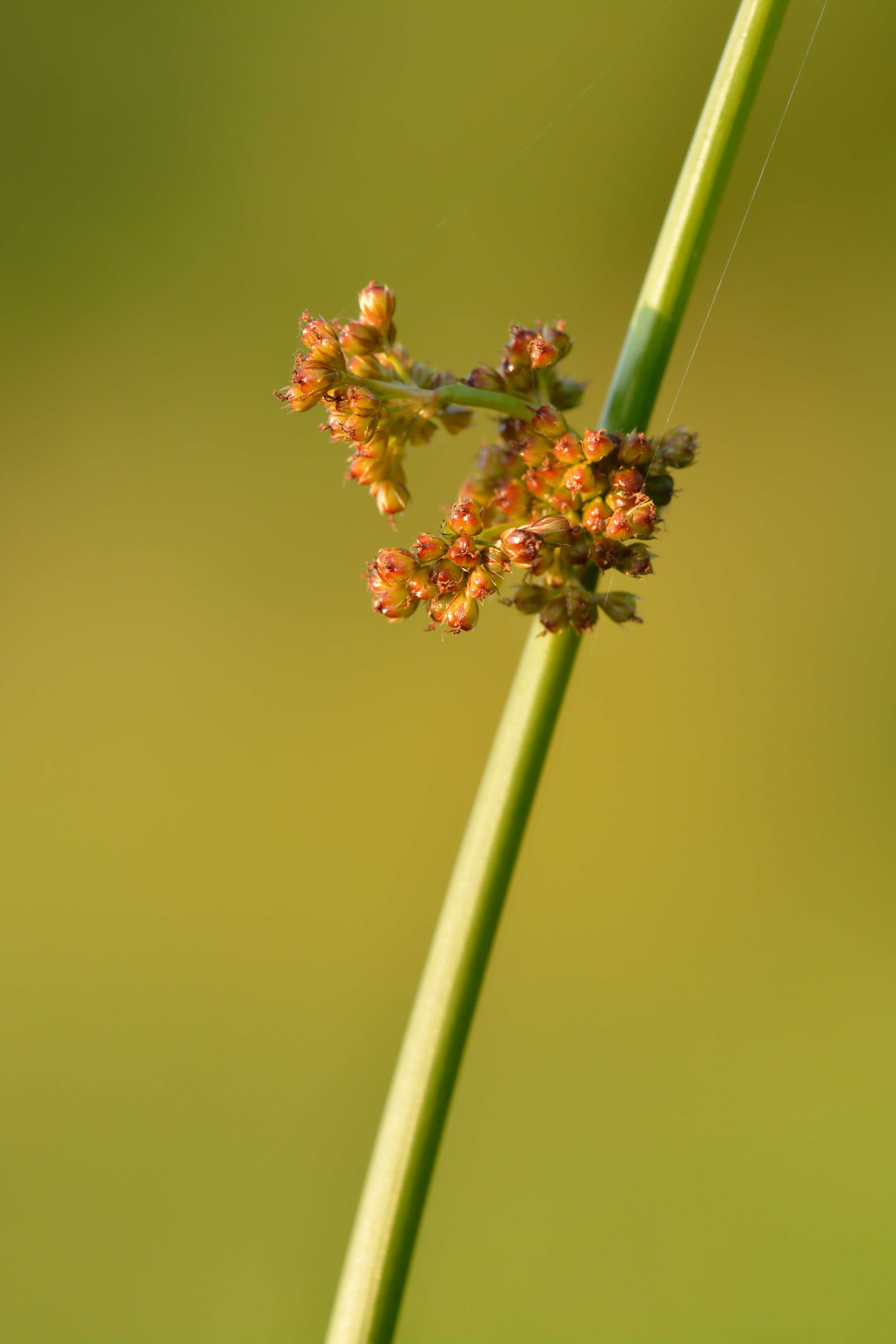 Juncus effusus - soft rush in Keila, Northwestern Estonia.